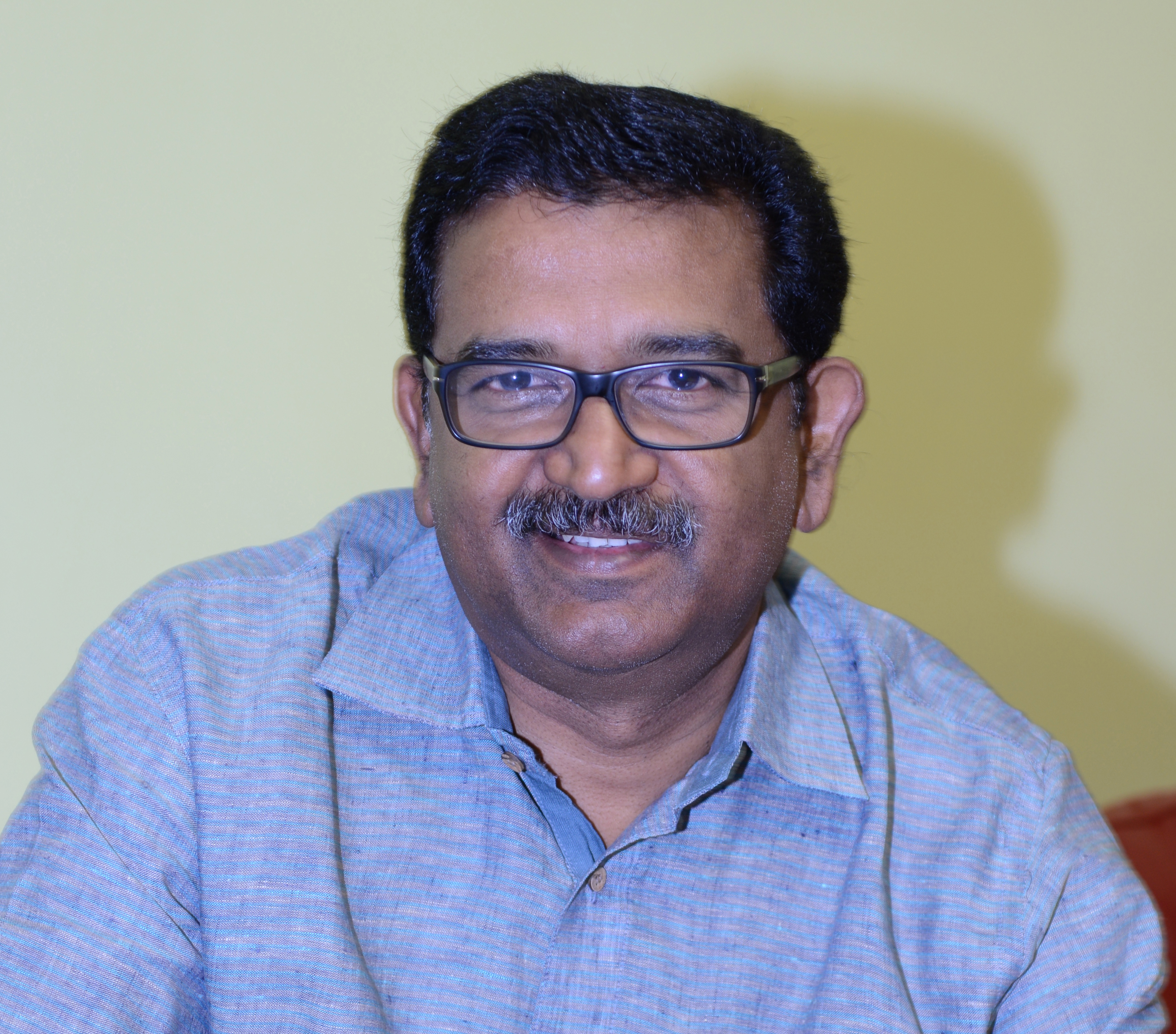 Updated Picture